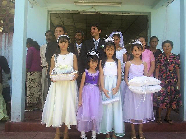 Photo of a wedding in East Timor, in the town of Liquiçá, in 10th June 2006. The little girls with the rings and baskets on the front row are all Hakka, as well as the mother of the bride on the far right and the witnesses (man and woman on both sides of the just-married couple). The bride is mestiza, Chinese-East Timorese. A lot of East Timorese of Hakka descent have converted to Catholicism, even if they continue attending traditional Chinese ceremonies at Chinese temples.